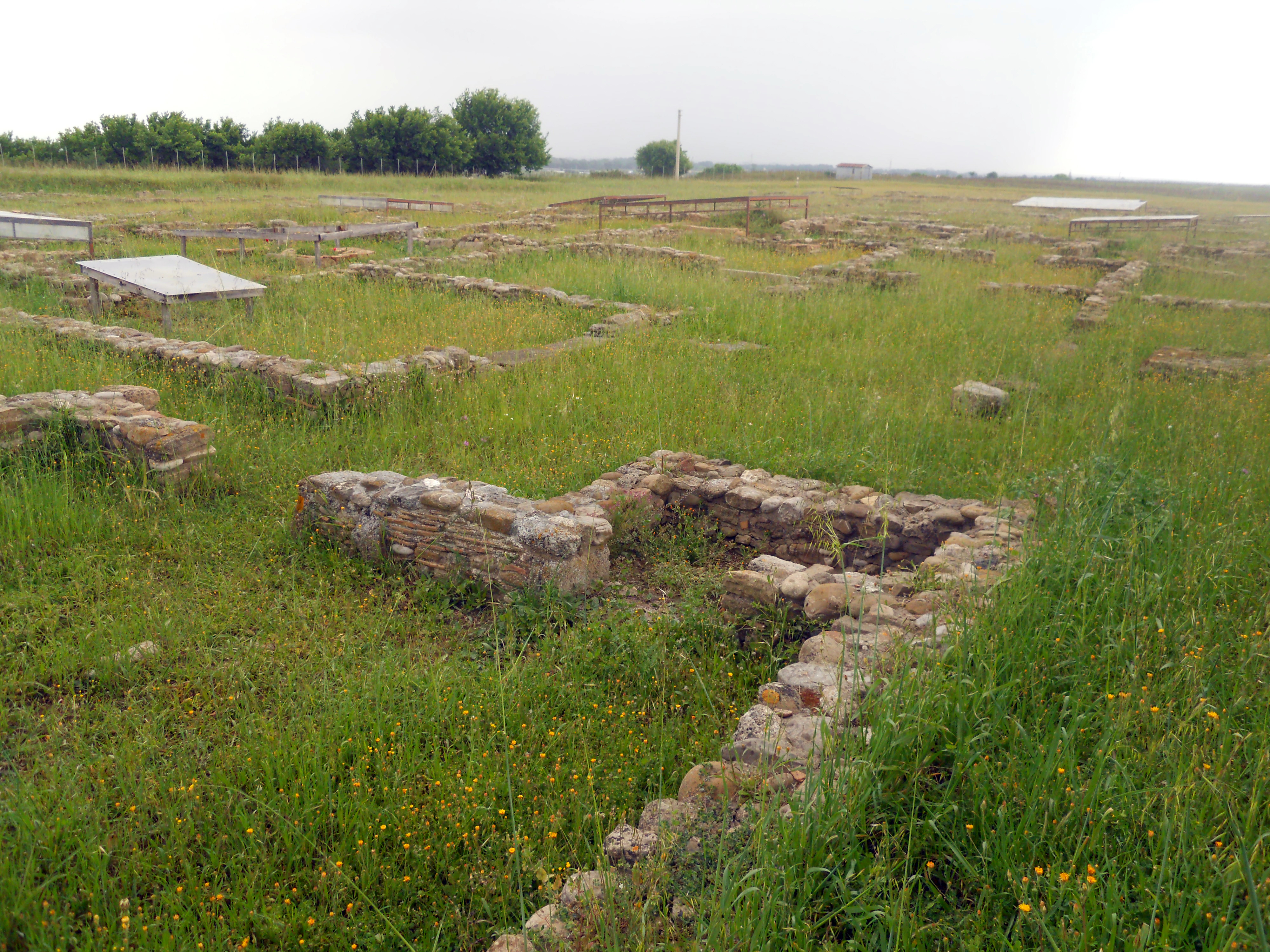 Herakleia and Siris archeological area, in the Museo nazionale della Siritide of Policoro (Italy)